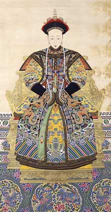 The Official Imperial Portrait of Qing Dynasty's Empress